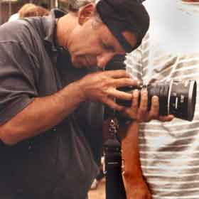 Joe Napolitano, Quantum Leap '91 "Play Ball"